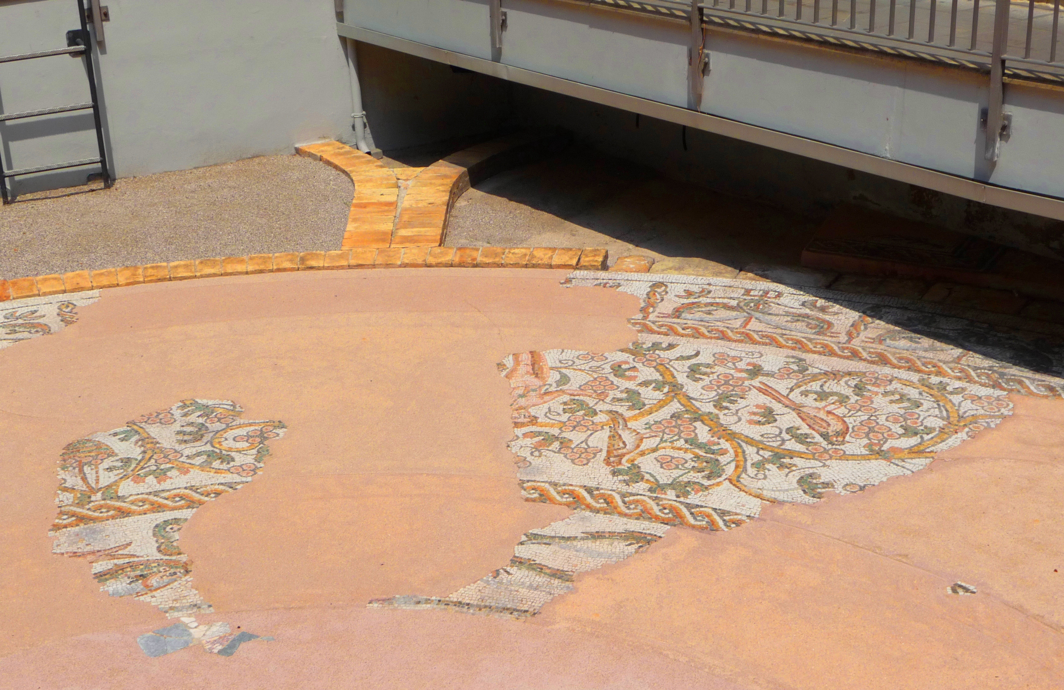 Mosaic in via Canoniche, Treviso (IT)